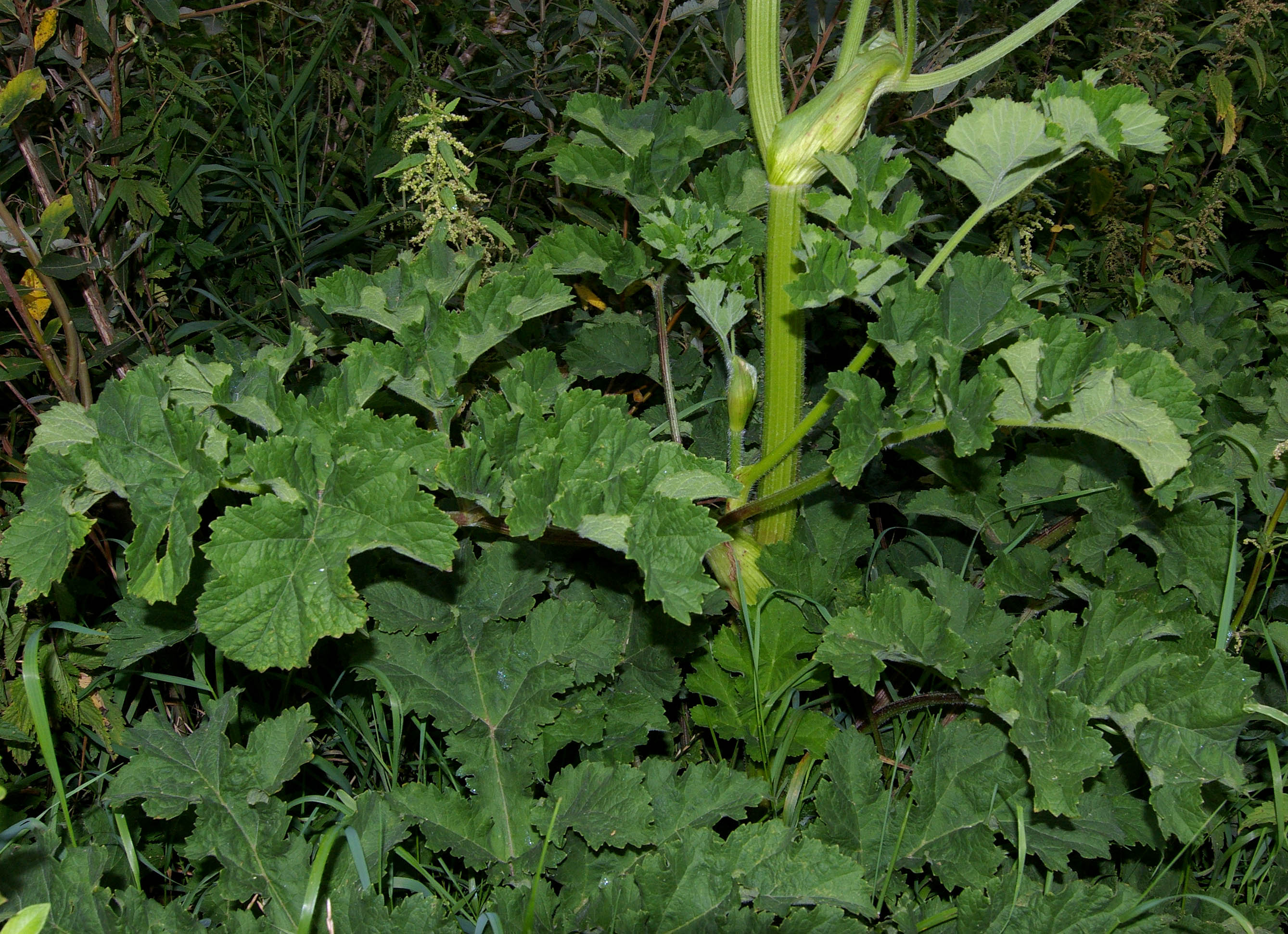 Leaves and basis of Common Hogweed, Heracleum sphondylium (Apiaceae). (It is not Heracleum mantegazzianum!)